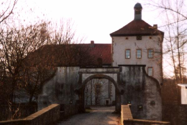 Bustedt Castle in town of Hiddenhausen, District of Herford, North Rhine-Westphalia, Germany.